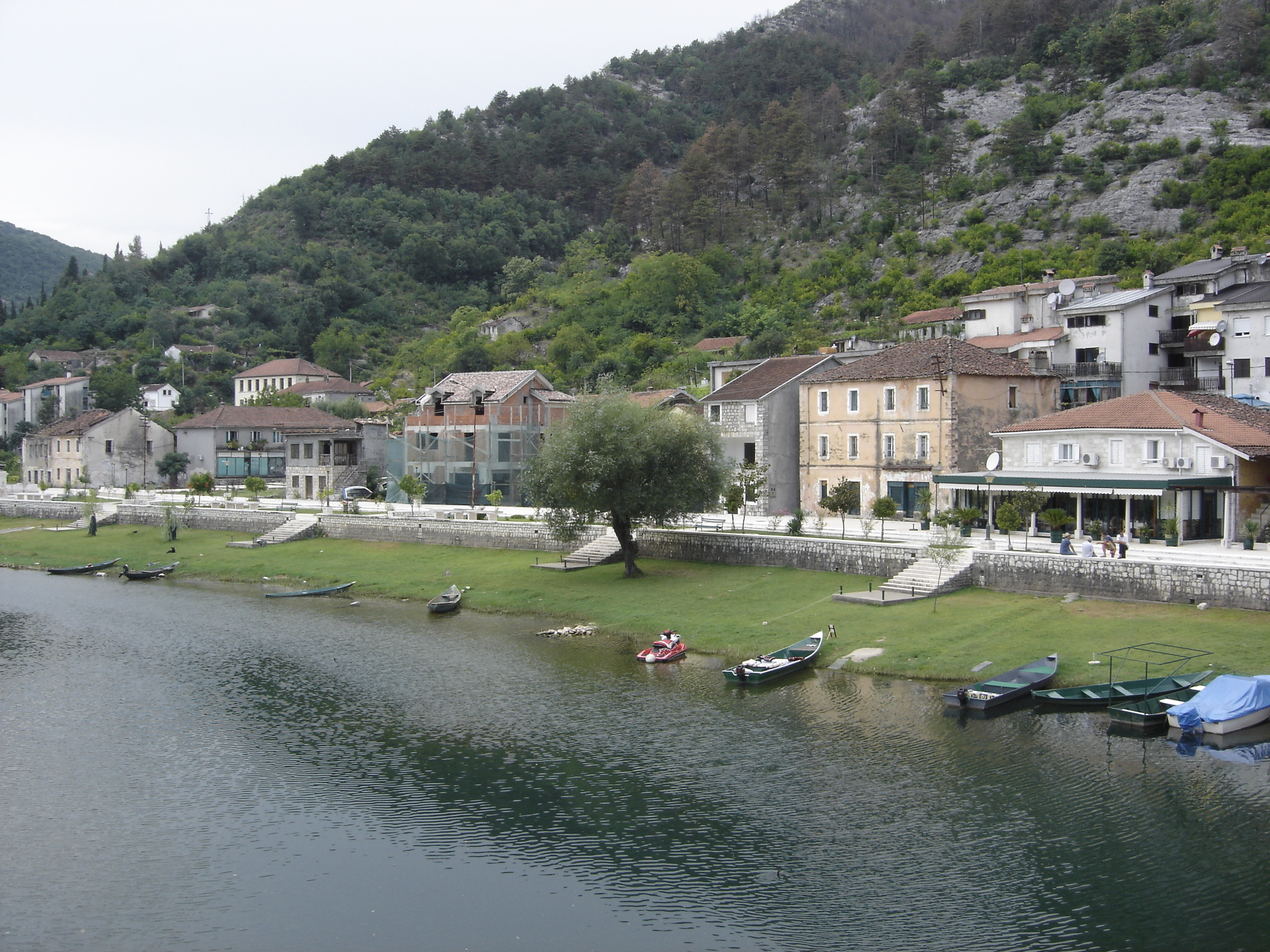 View of Rijeka Crnojevića in Monténégro from the old bridge